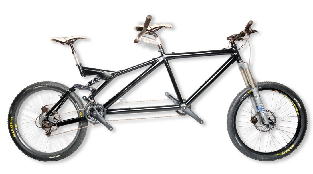 MTB tandem full suspended doublettrack Tthunder